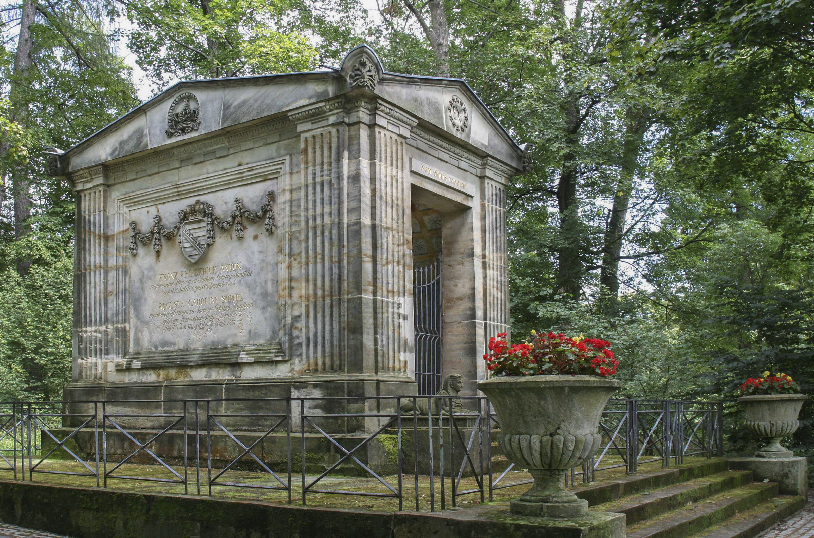 Mausoleum in the Coburg royal garden. The Mausoleum is of Franz Friederich Anton, Duke of Saxe-Coburg-Saarfeld